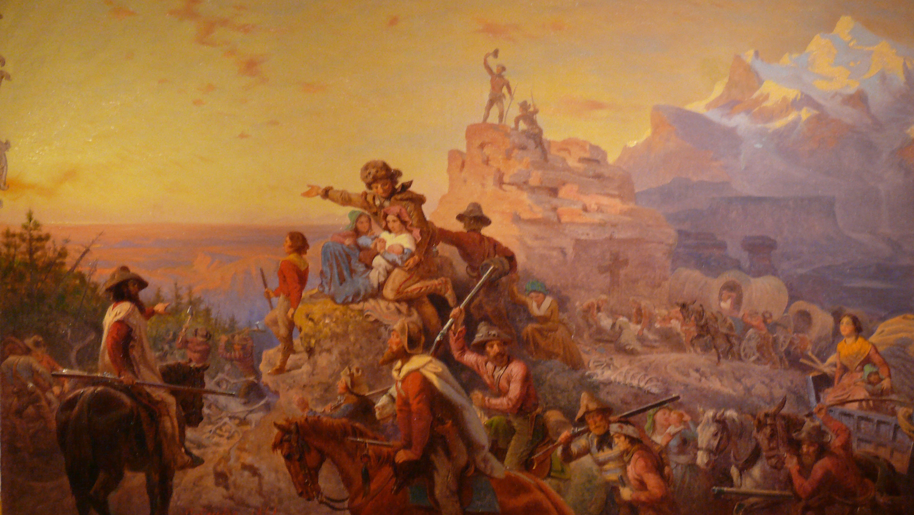 Emanuel Gottlieb Leutze (May 24, 1816 – July 18, 1868) was a German American history painter best-known for his painting Washington Crossing the Delaware. In 1860 Leutze was commissioned by the U.S. Congress to decorate a stairway in the Capitol Building in Washington, DC, for which he painted a large composition, Westward the Course of Empire Takes Its Way, which is also commonly known as Westward Ho!. The painting is a study for the mural. It celebrates the idea of the Manifest Destiny at the time when the Civil War threatened the republic.